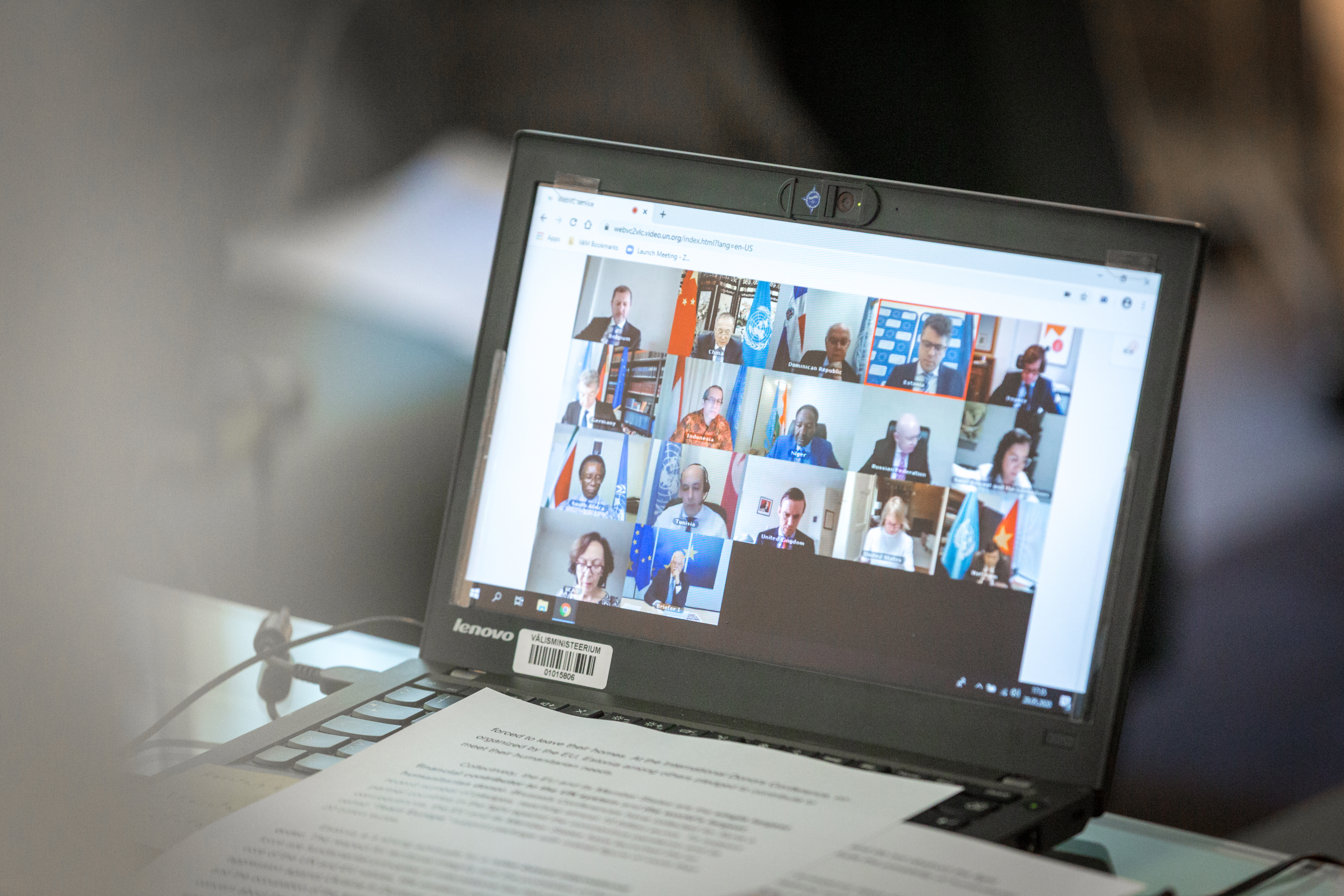 Virtual meeting of United Nations Security Council during COVID-19 pandemic.